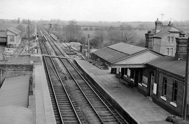 Bletchington railway station, Enslow, Oxfordshire. on the former GWR Didcot - Oxford - Banbury main line. View northward towards Banbury. This station, serving the village variously spelt Bletchington or Bletchingdon, was closed to passengers 2 November 1964, goods 21 June 1965.